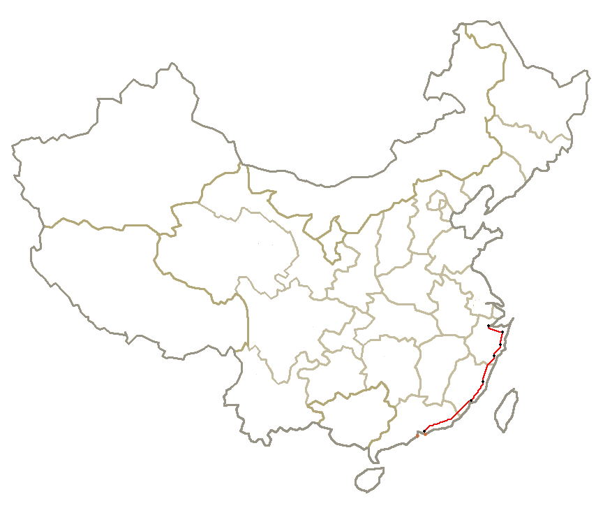 Map showing Shanghai-Shenzhen Line (High-speed rail)